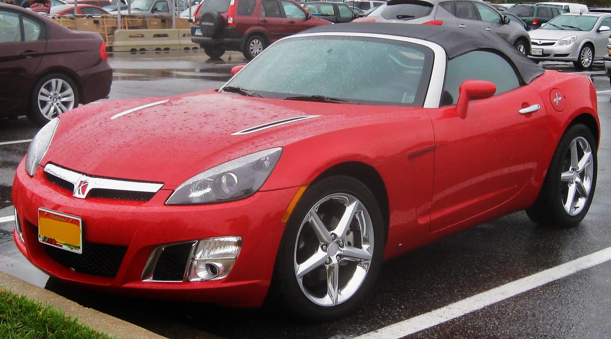 Saturn Sky photographed in Waldorf, Maryland, USA.